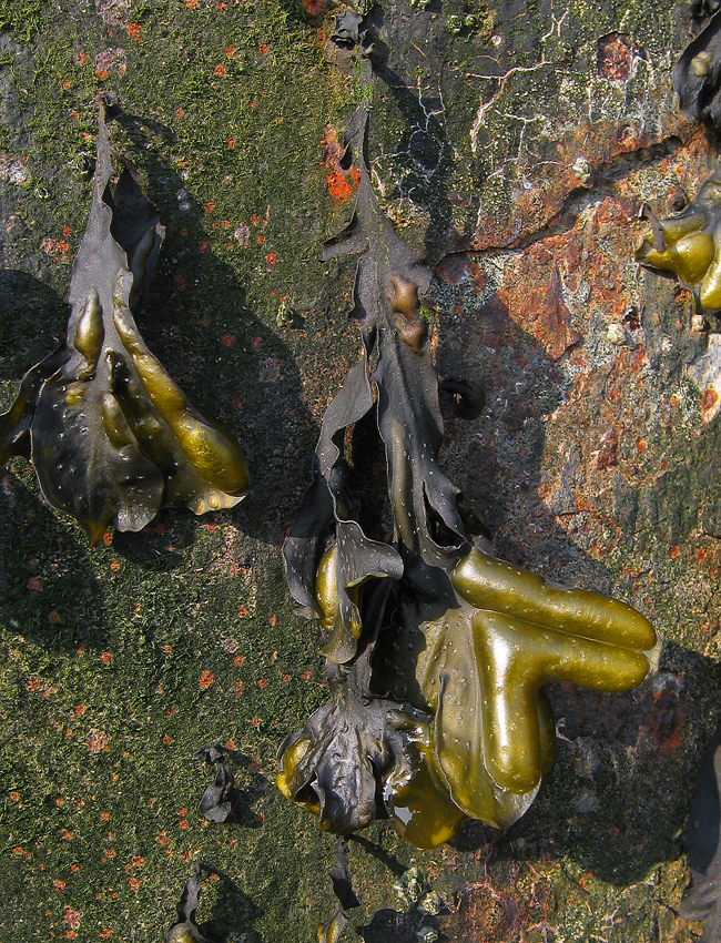 The Alga Fucus spiralis var. platycarpus (Spiral Wrack) at the Helgoländer mole